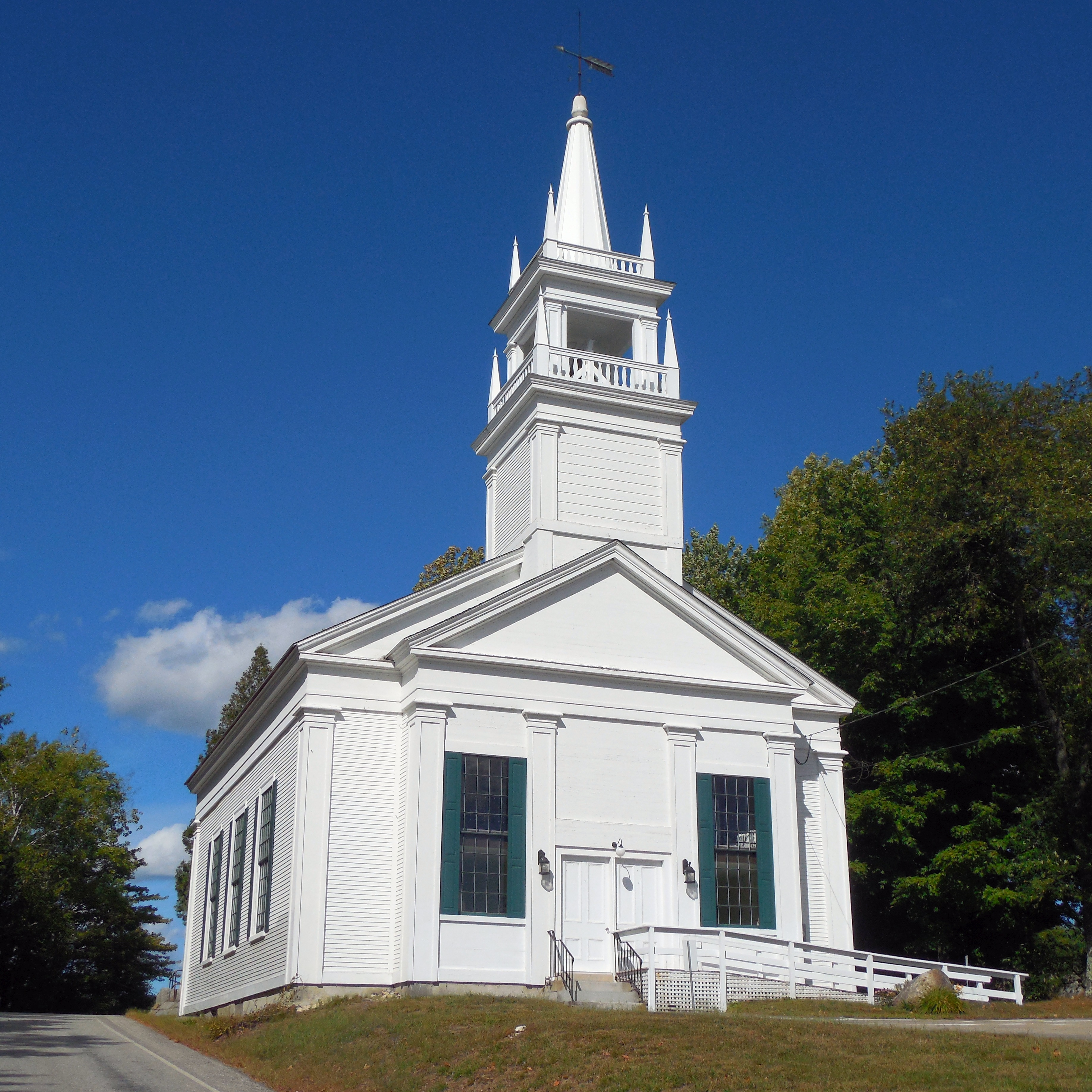 First Congregational Church, in Andover, New Hampshire, 2016. Originally constructed in 1796 and remodeled in 1849, the church was added to the National Register of Historic Places (NRHP) in 1989 as a contributing building of East Andover Village Center Historic District.